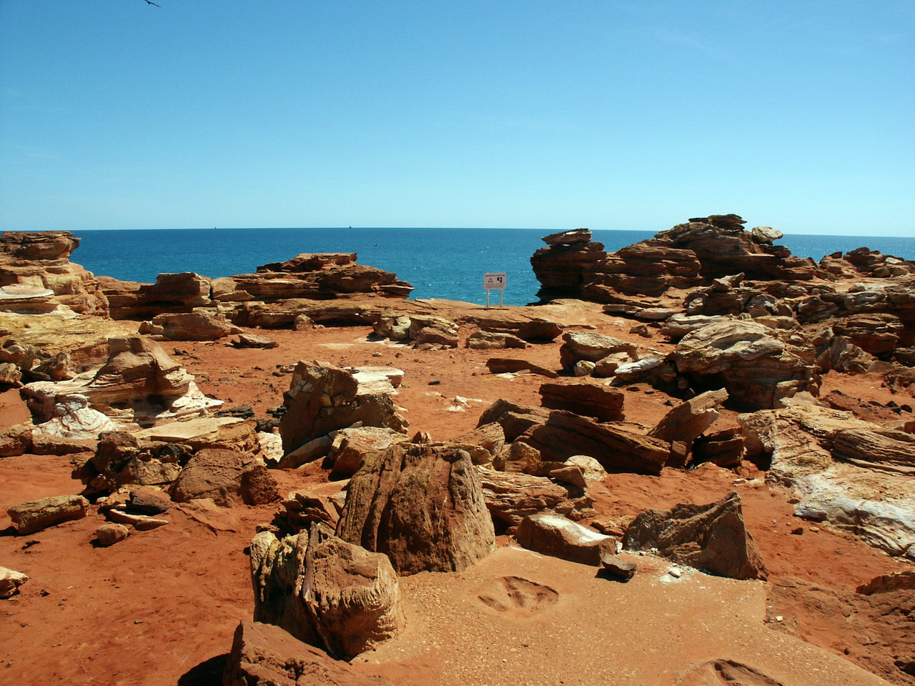 Gantheaume Point Broome, Western Australia.